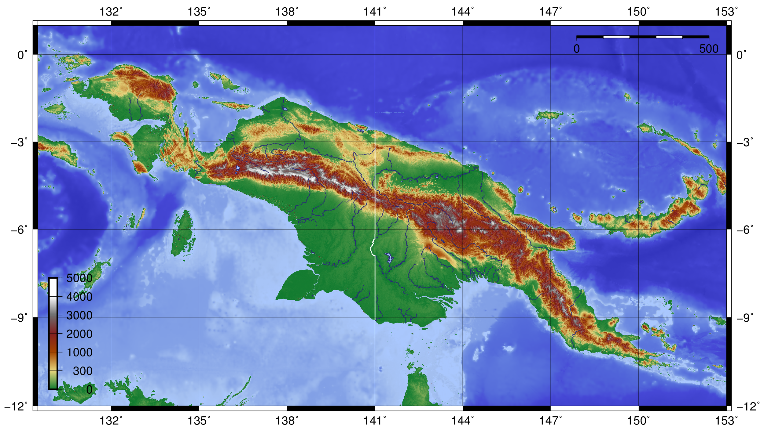 Topography of New Guinea, created with GMT 5.2.1